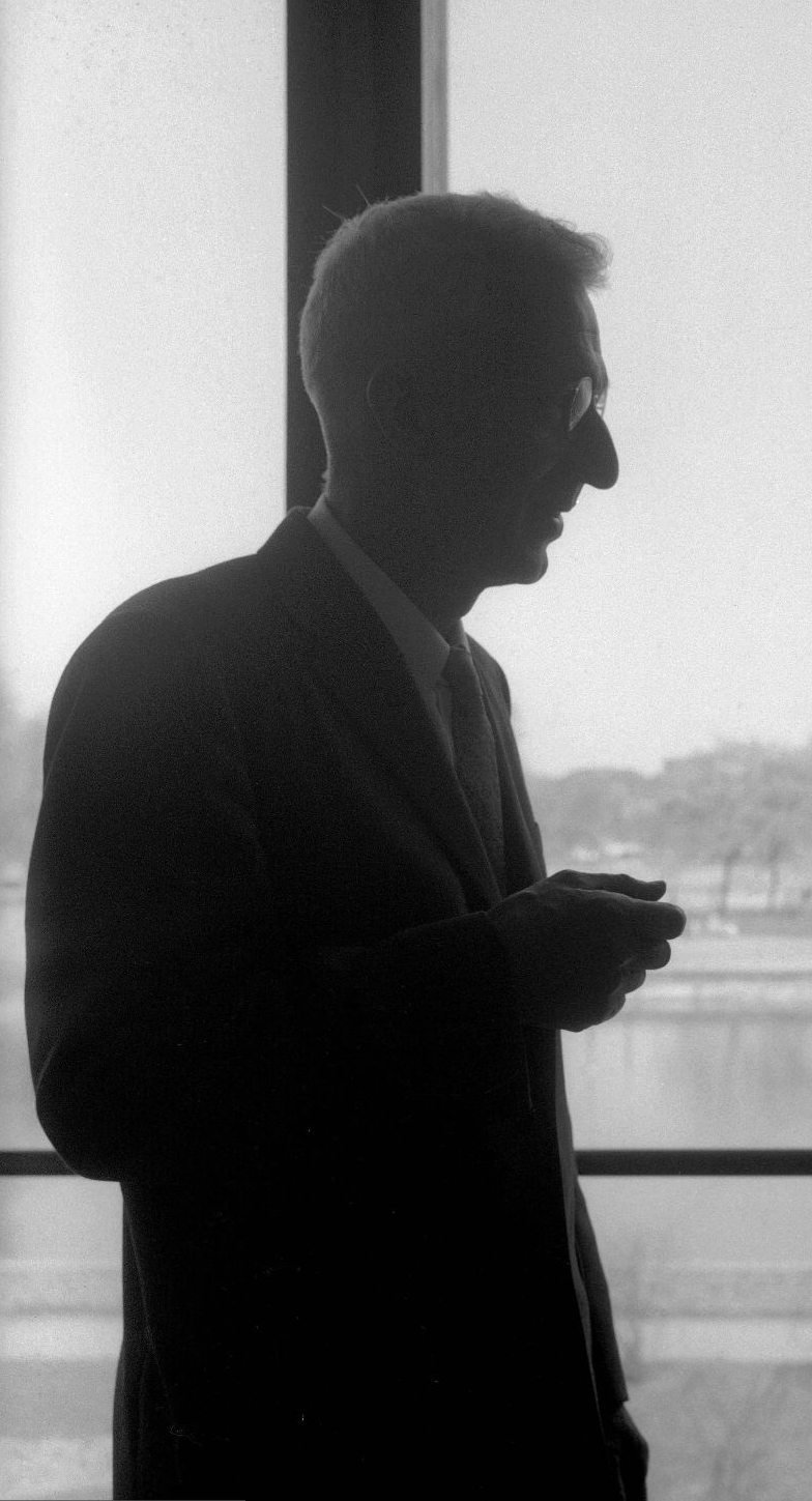 Photograph of the American theatre scholar Kenneth Thorpe Rowe (1900–1988) during his visit to Finland. Photographed at the foyer of the small stage of the National Theatre of Finland.